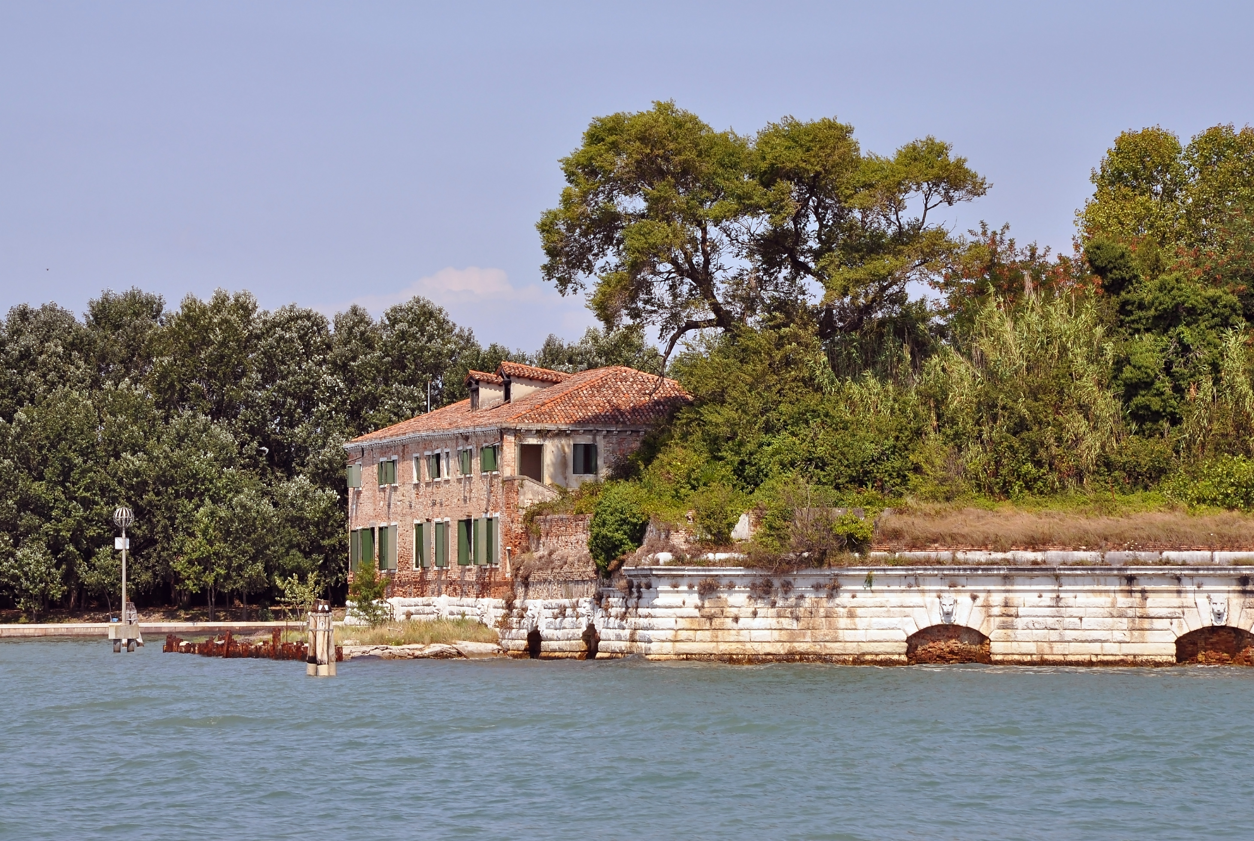 Southern side of the Fort San Andrea large fortress built in 16th century to defend Venice, located on Sant'Andrea, the prolongation of Vignole island in Venice, Italy.